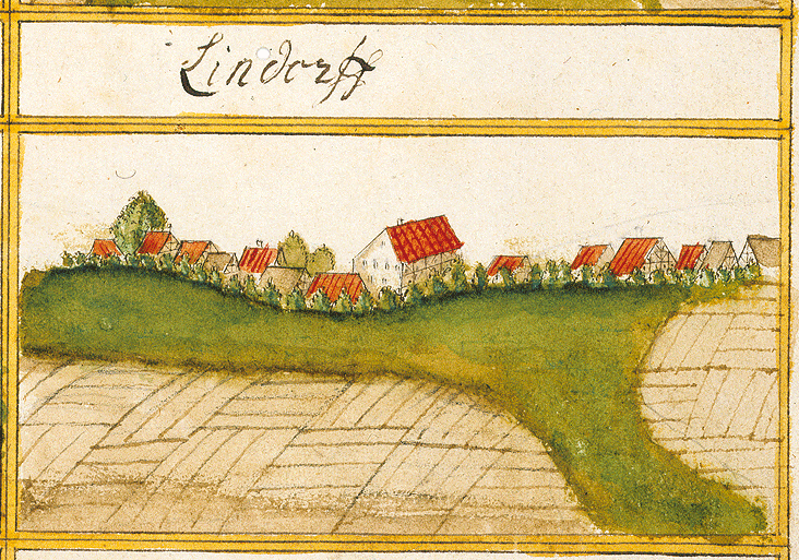 View of Lindorf, Kirchheim unter Teck, from the forest register books created by Andreas Kieser